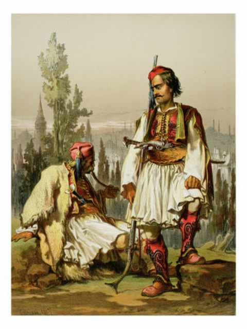 Romania, Balkans, TurkeyAuthority control : Q3675462 VIAF: 2741854 ISNI: 0000 0000 8082 574X ULAN: 500119781 LCCN: n85197102 GND: 131791583 WorldCat creator QS:P170,Q3675462 Albanians Mercenaries in the Ottoman Army Published by Lemercier